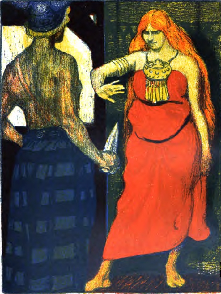 Skirnir wirbt um Gerda (the title given to the work on page xii). A depiction of the the meeting between Skírnir and Gerðr.